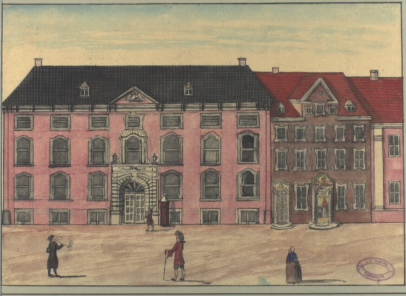 Den Kongl. Marschals Gård, nu Postgården på Købmagergade, 1749